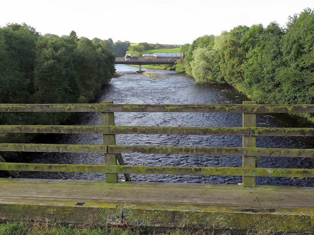 Haltwhistle A69 Bridge, West from Bellister Bridge